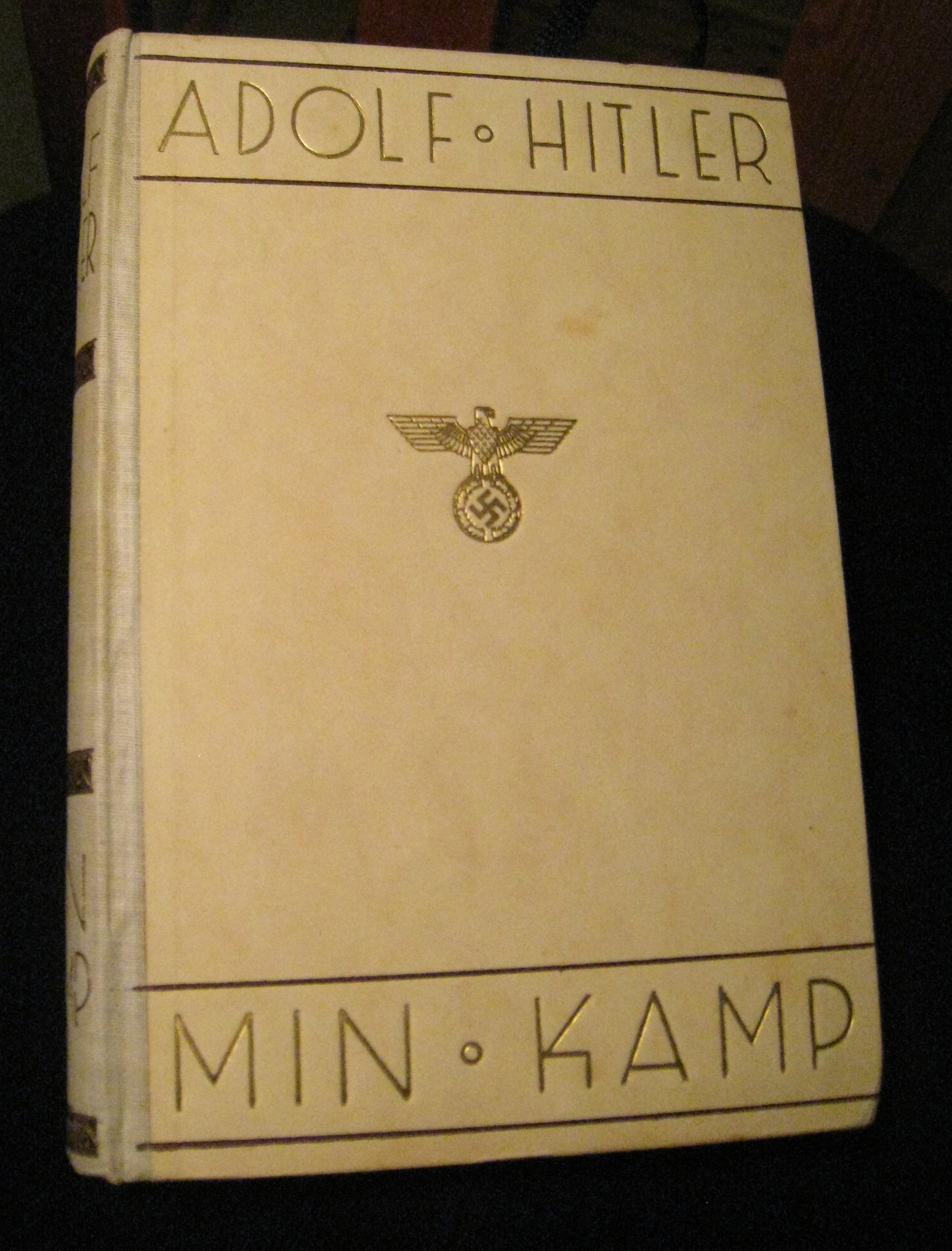 Mein kampf, My struggle, Norwgian edition